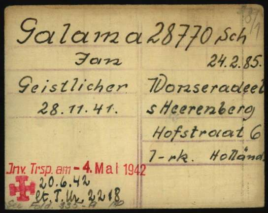 Registration card of Jan Ysbrands Galama as a prisoner at Dachau Nazi Concentration Camp. The stamped cross signals the day of his death.